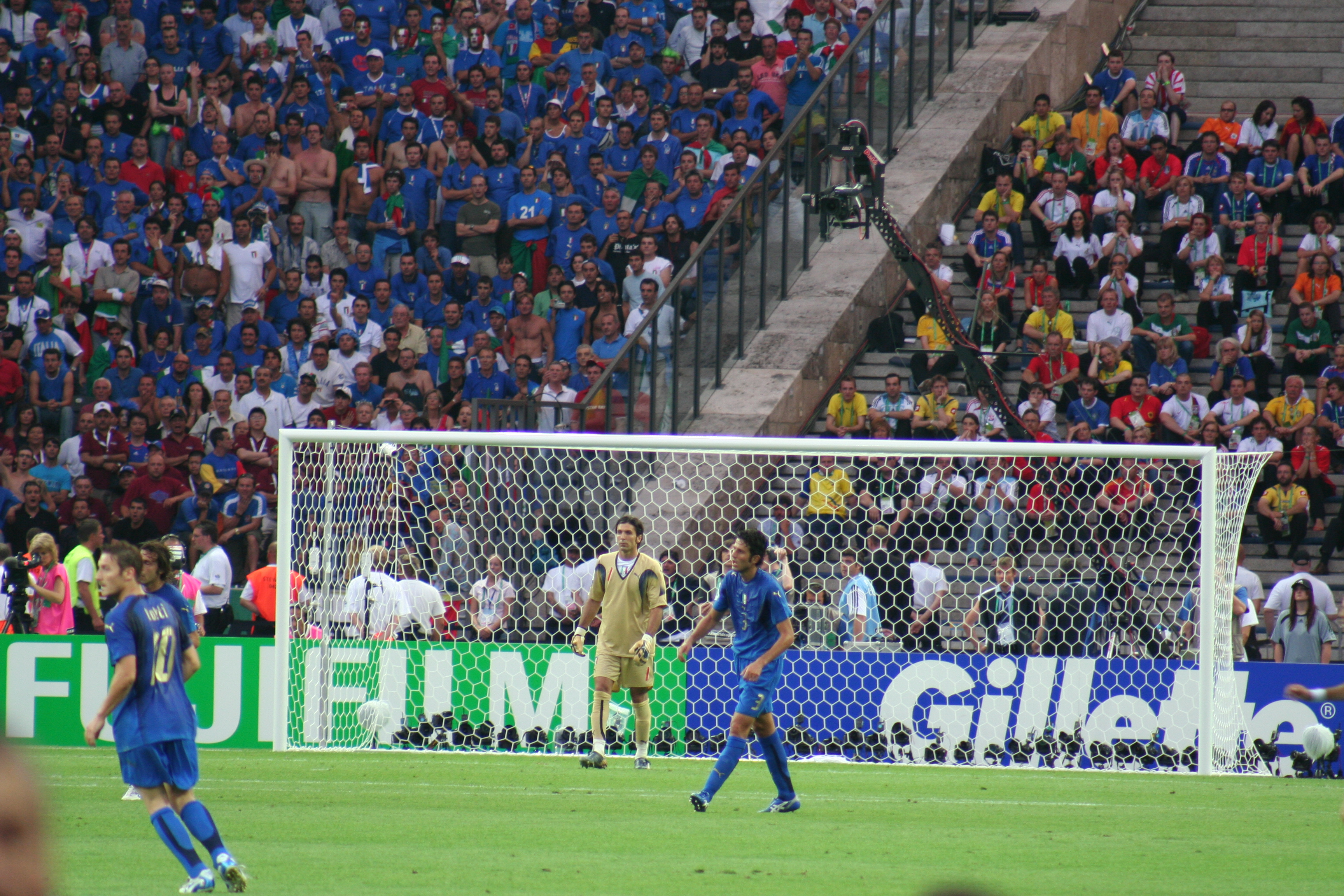 Italy and France in world cup final 2006